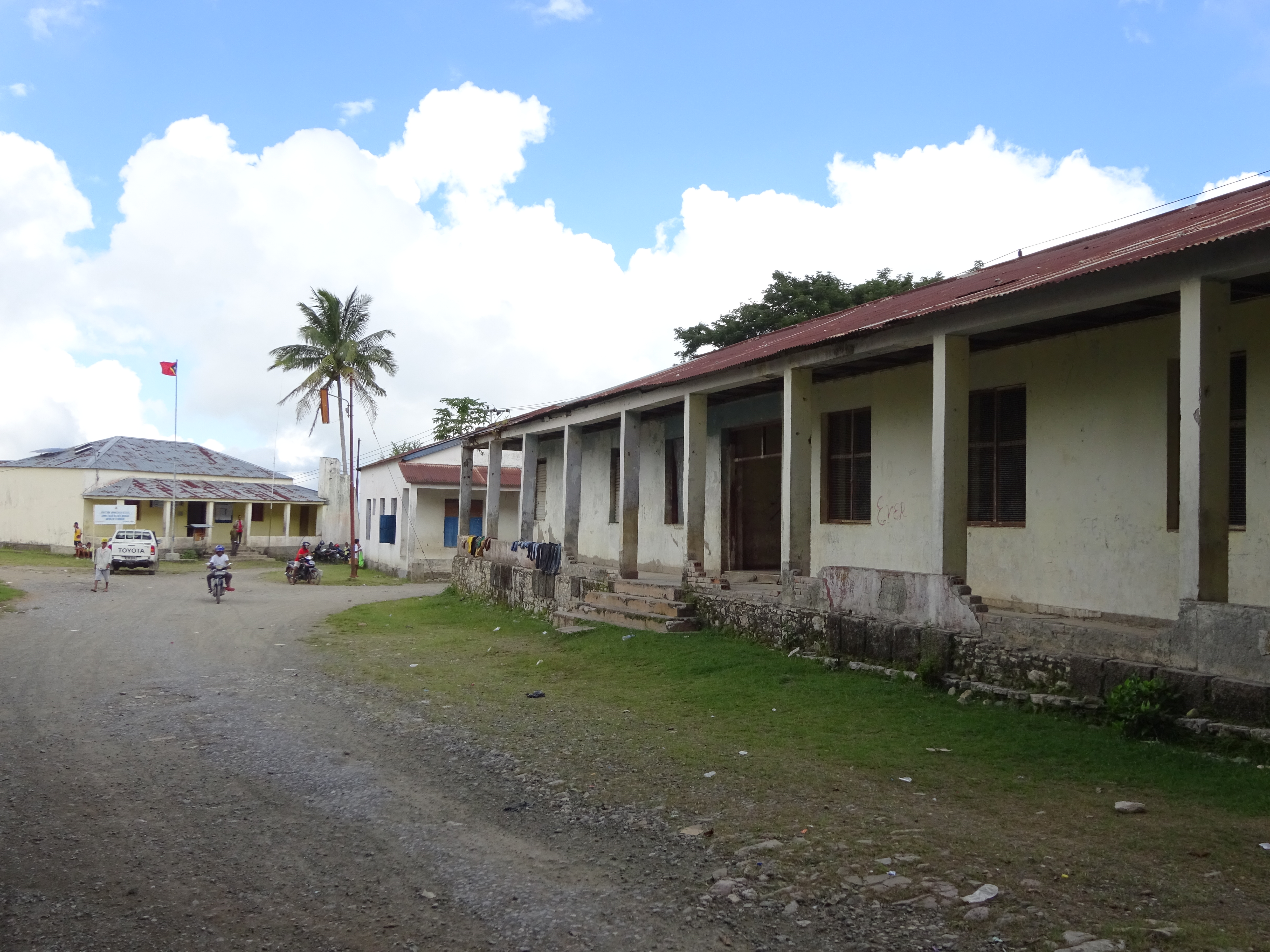 At the police station of Bobonaro